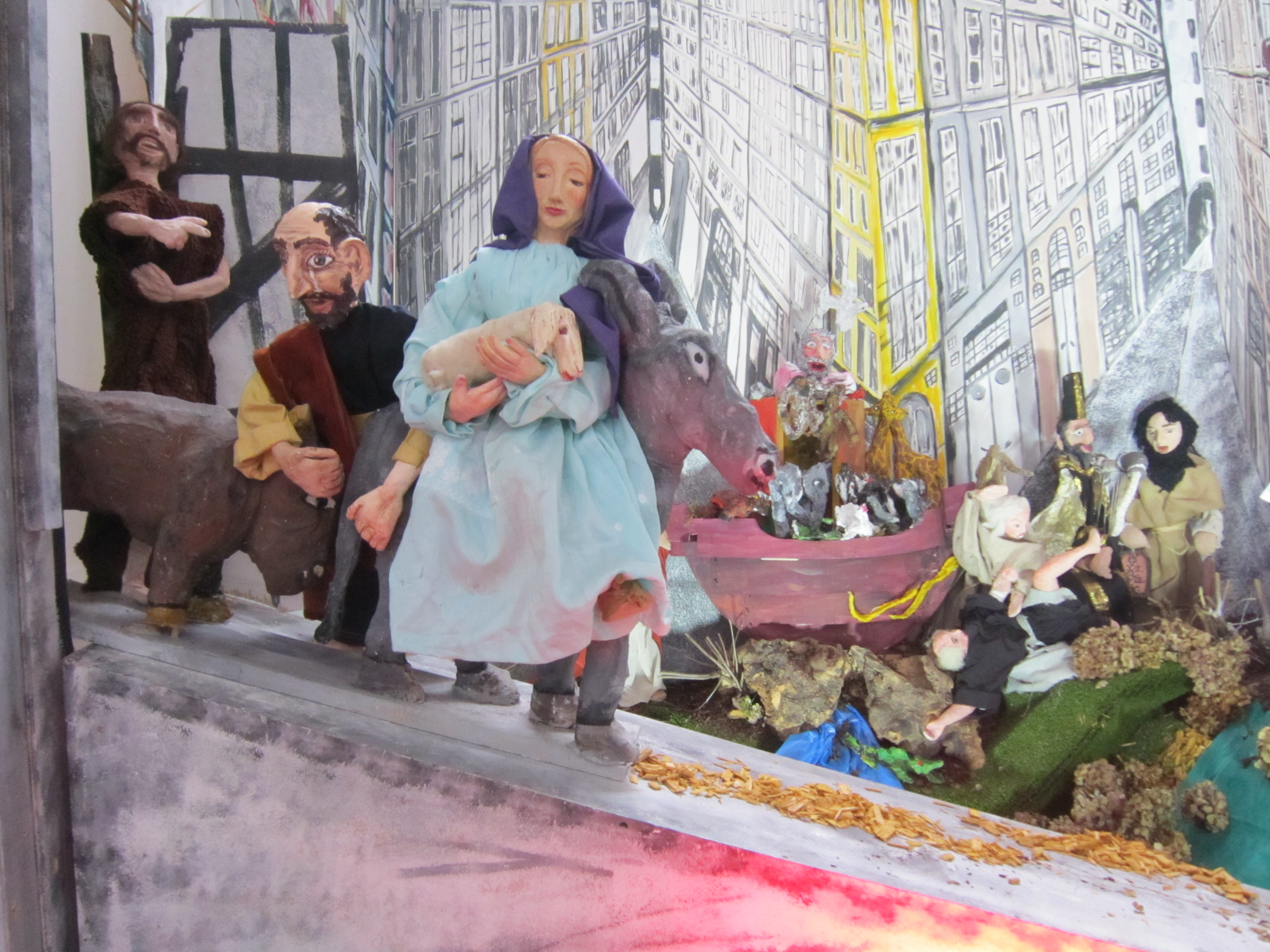 Modern nativity scene designed by prisoners in Heidelberg Jesuit Church